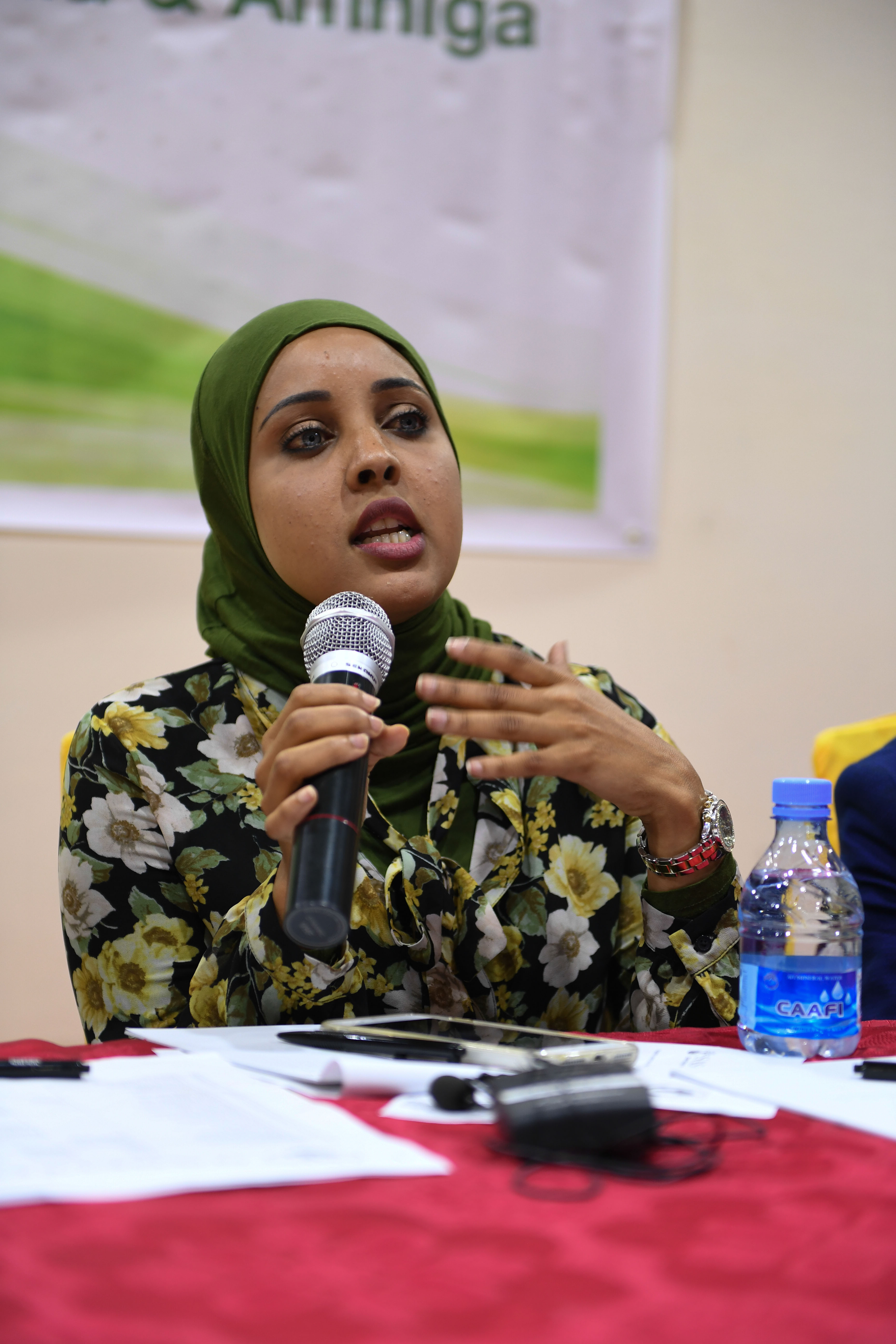 Muna Khalif, an MP whose election has been nullified speaks during a workshop in Mogadishu, Somalia, aimed at enhancing youth political participation, Peace and Security on December 15, 2016. AMISOM Photo / Ilyas Ahmed